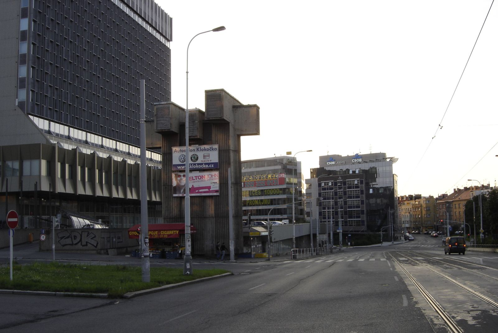 Prague district Pankrats, namesti Hrdinu.